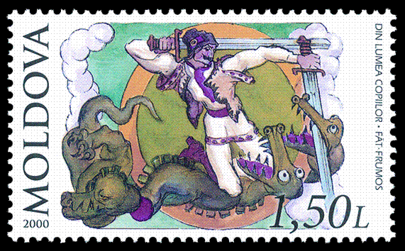 Stamp of Moldova